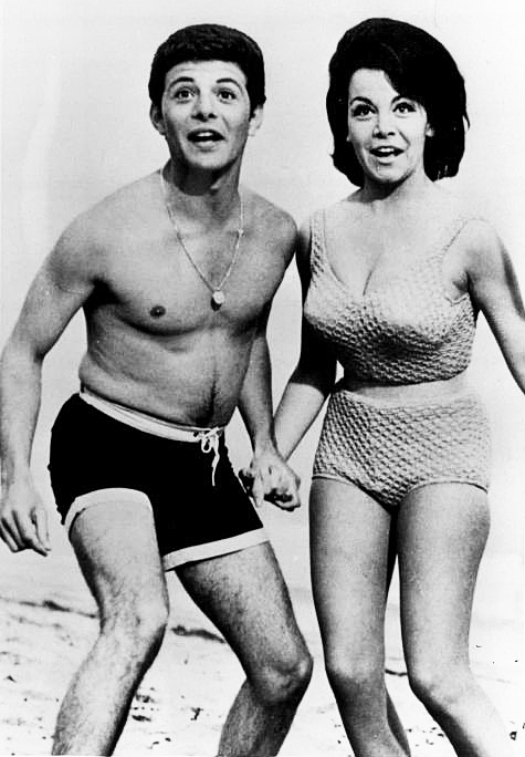 Publicity photo of American entertainers Frankie Avalon and Annette Funicello depicting their roles in the series of Beach Party films they popularized during the mid-1960s. The attached newspaper clippings which published the photo do not provide a specific year for the 1960s image (right), or which particular film the image is from, but simply refer to the image as depicting the subjects during the "beach-party era" (circa, 1963–1965).